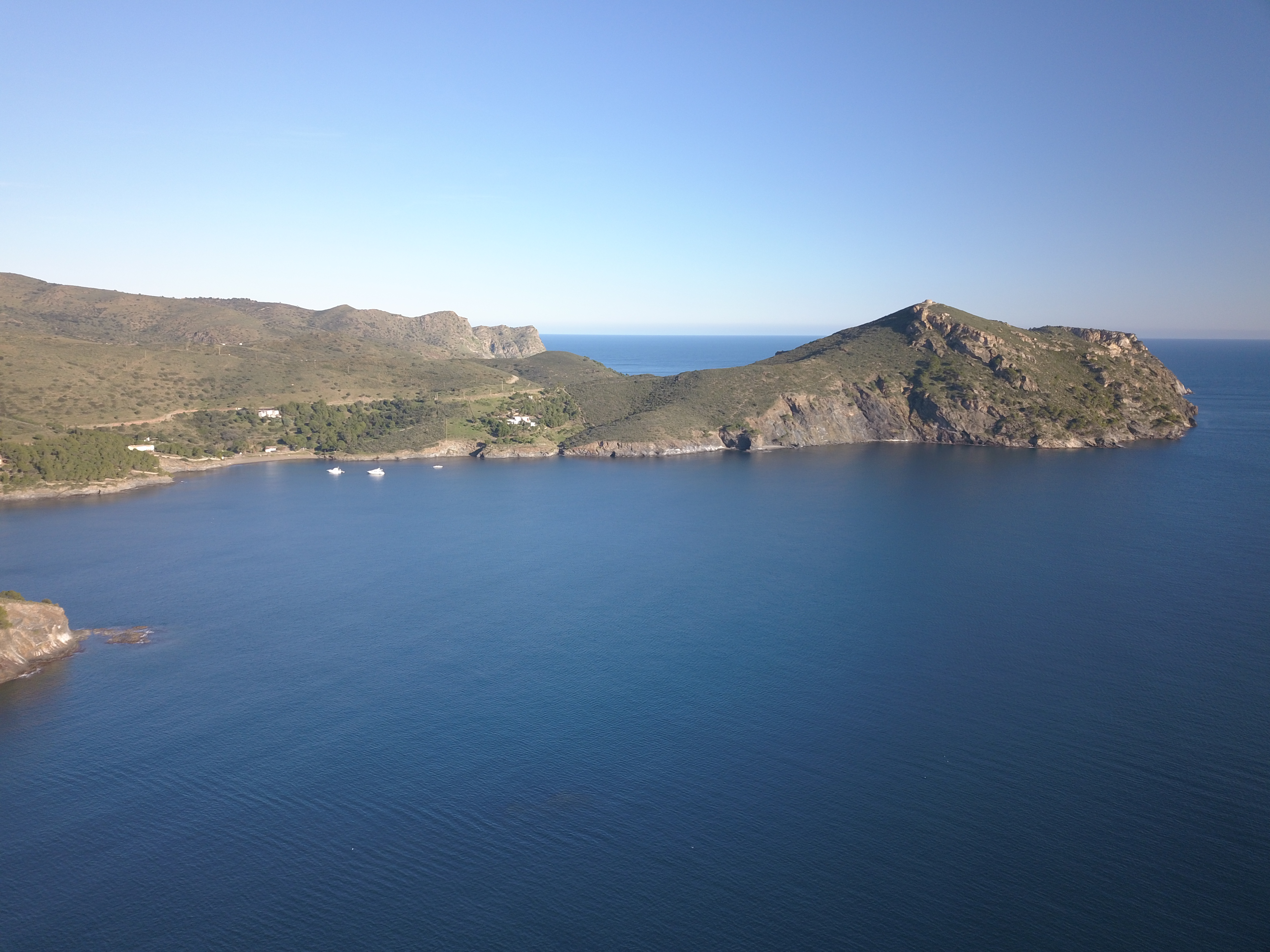 Picture from the peninsula of Norfeu, part of the natural park of Cap de Creus in Gerona, Catalunya.